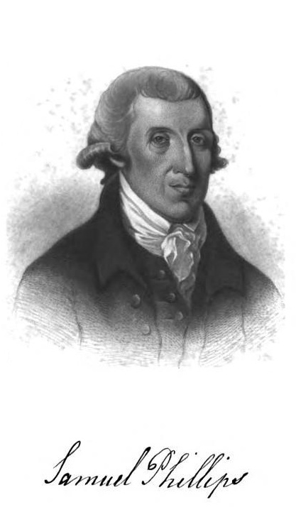 Massachusetts Lieutenant Governor Samuel Phillips, Jr. Phillips was the founder of the Phillips Academy in Andover, Massachusetts.